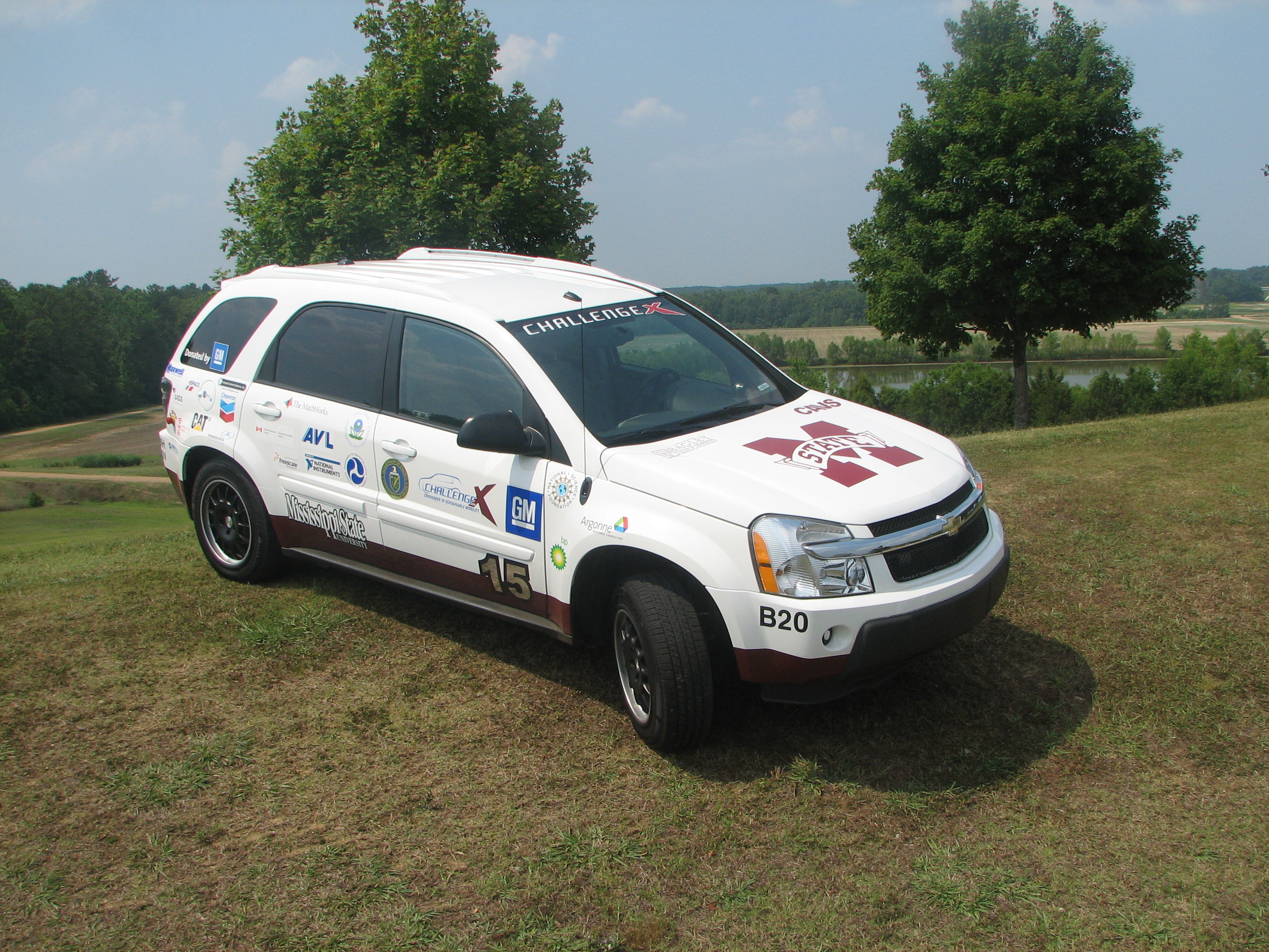 Mississippi State's Challenge X entry, BioBully.